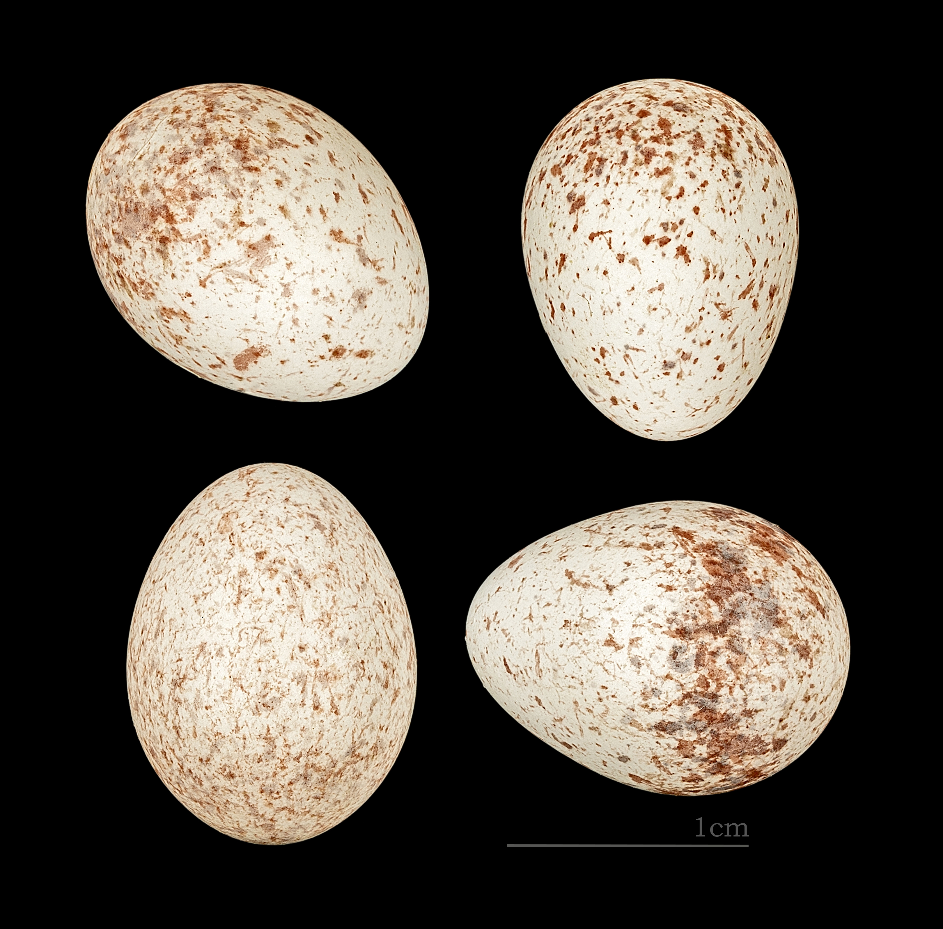 Egg of Streaked Scrub Warbler. Collection of Jacques Perrin de Brichambaut.